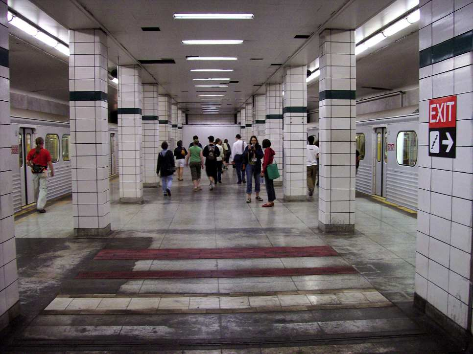 Toronto Transit Commissions Bay Lower Station, during Doors Open Toronto Festival. This view is looking westward at the west end of the platform.